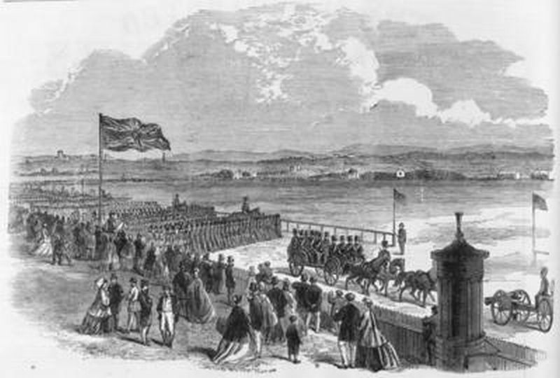 Illustration showing the Review being conducted at the racecourse at Aintree. Business and trade in Liverpool were stopped as more than 30,000 people watched the review and battle practice